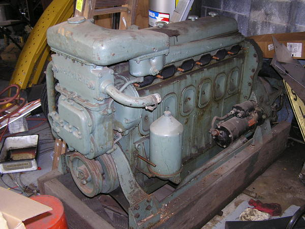 A Detroit Diesel 6-71 Grey Marine engine